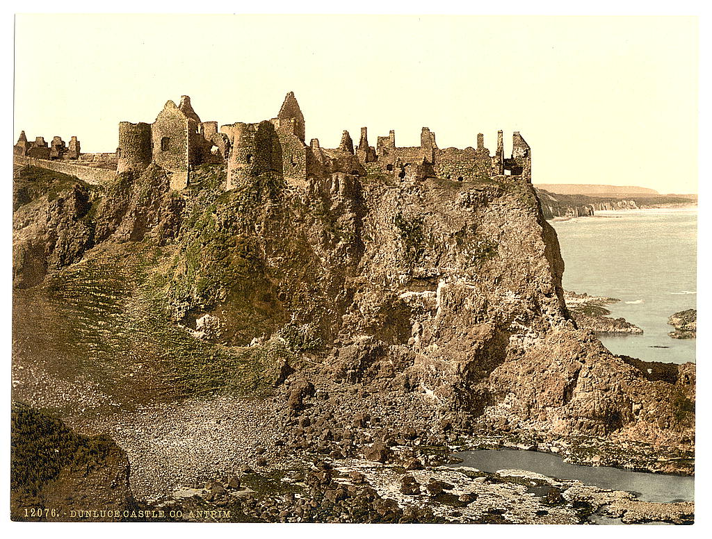 [Dunluce Castle. County Antrim, Ireland] [between ca. 1890 and ca. 1900]. 1 photomechanical print : photochrom, color. Notes: Title from the Detroit Publishing Co., catalogue J--foreign section. Detroit, Mich. : Detroit Photographic Company, 1905.. Print no. "12076". Forms part of: Views of Ireland in the Photochrom print collection. Subjects: Northern Ireland--County Antrim. Format: Photochrom prints--Color--1890-1900. Repository: Library of Congress, Prints and Photographs Division, Washington, D.C. 20540 USA, Part Of: Views of Ireland (DLC) 2001700656 More information about the Photochrom Print Collection is available at Persistent URL: Call Number: LOT 13406, no. 015 [item] This image is available from the United States Library of Congress's Prints and Photographs division under the digital ID missing.This tag does not indicate the copyright status of the attached work. A normal copyright tag is still required. See Commons:Licensing for more information.